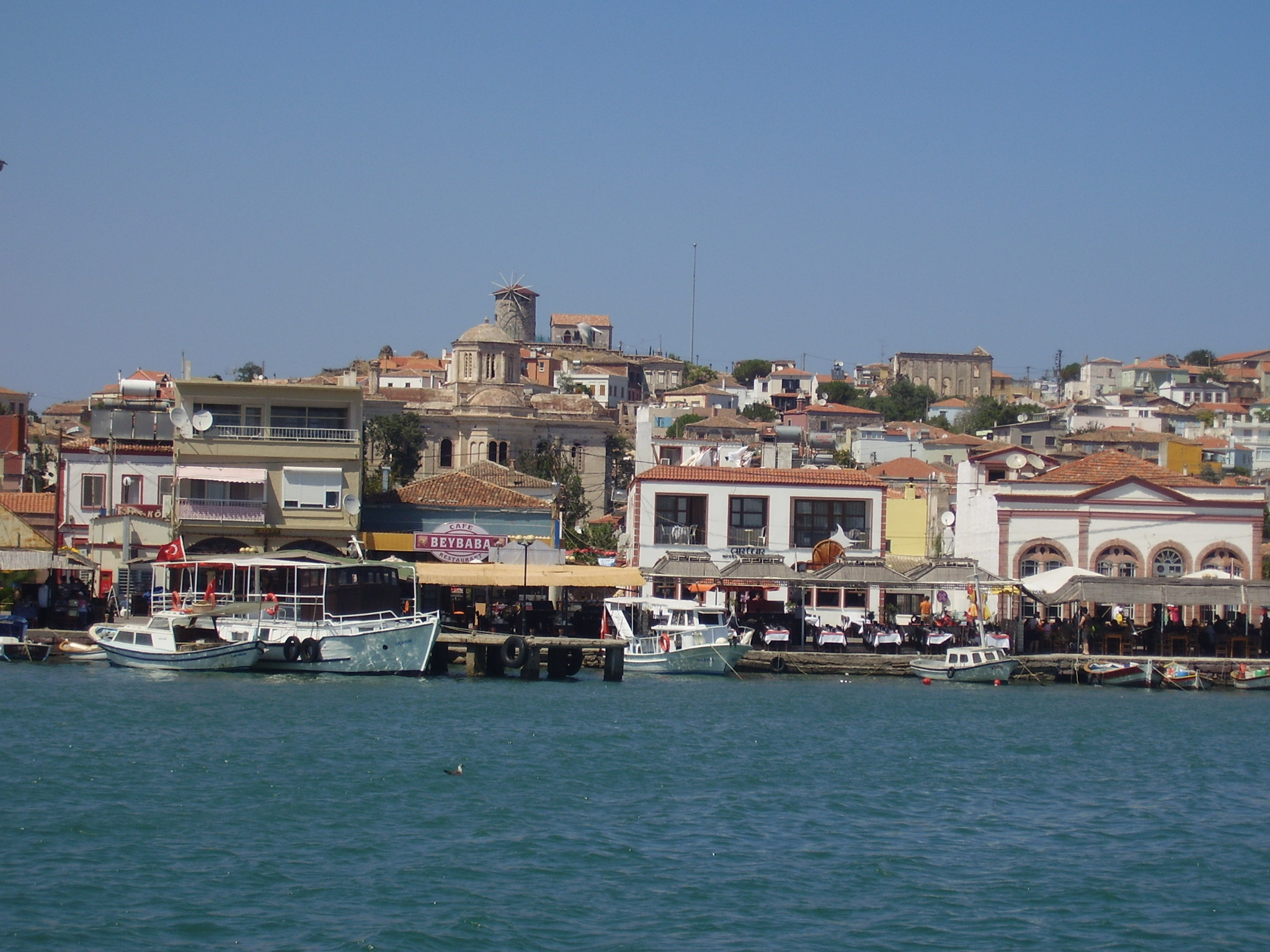 Waterfront of Cunda Island from the sea near Ayvalık